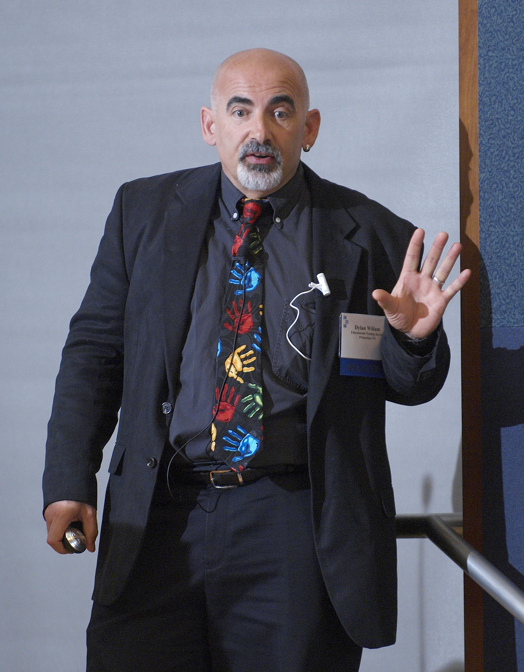 Photograph of Dylan Wiliam, speaker at LISE 2006 (Leadership Initiative in Science Education, 6th Annual Conference), "What Our Students Know: Assessment and Accountability in Science Education", April 26-27, 2006, organized by the Chemical Heritage Foundation.